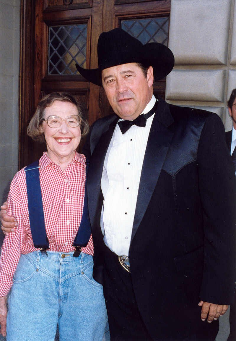 Peg Phillips and Barry Cobin of the TV show Northern Exposure on the red carpet at the Emmy Awards 1993 - Permission granted to copy, publish, broadcast or post but please credit "photo by Alan Light" if you can. Other versions: Image:Peg Phillips.jpg (cropped to show only Peg Phillips) Image:Barry Corbin 1993.jpg (cropped to show only Barry Corbin)